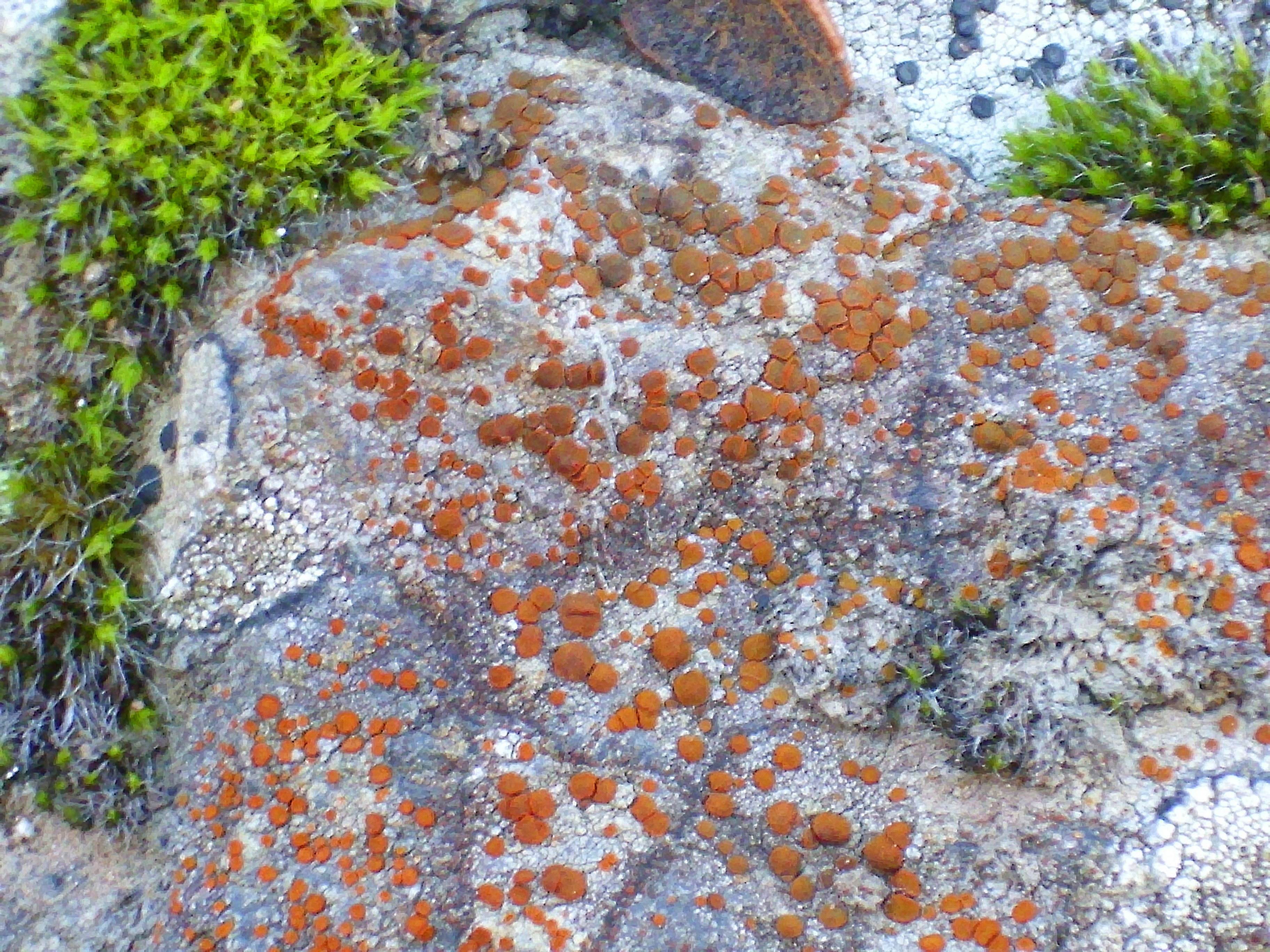 Lichen Arthonia cinnabarina habit, Sierra Madrona, Spain